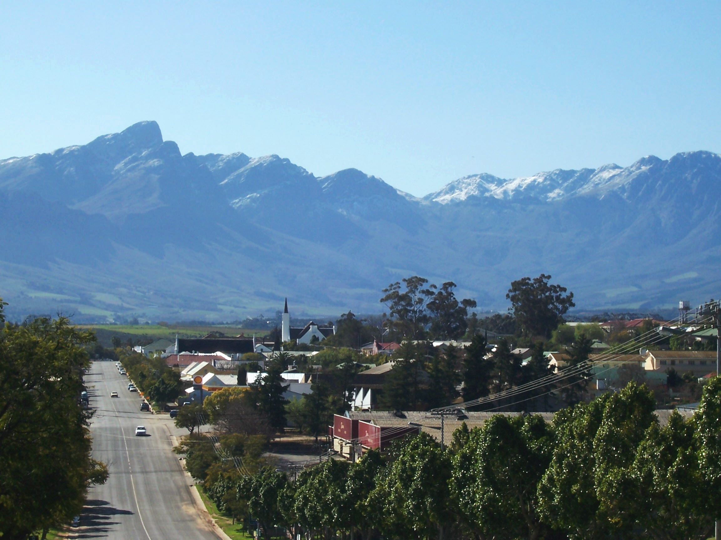 Tulbagh's main street with the Winterhoek Mountains beyond.